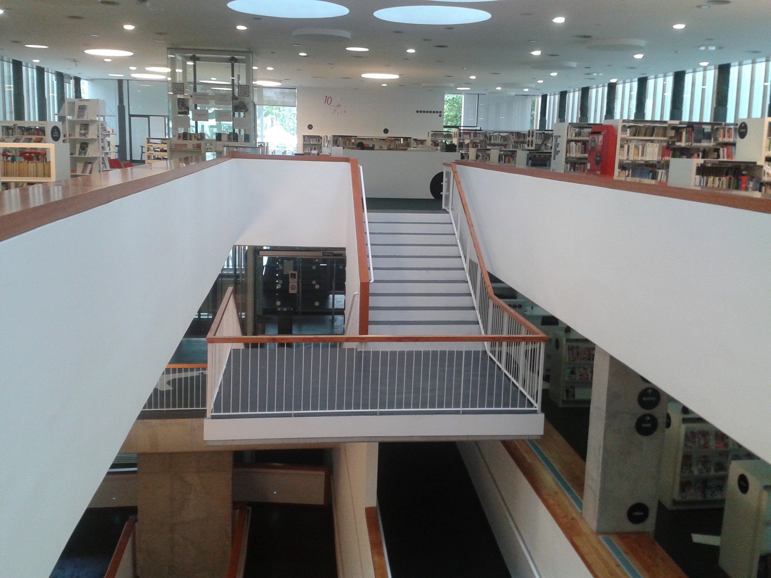 Library of Lloret de Mar (Catalonia, Spain).